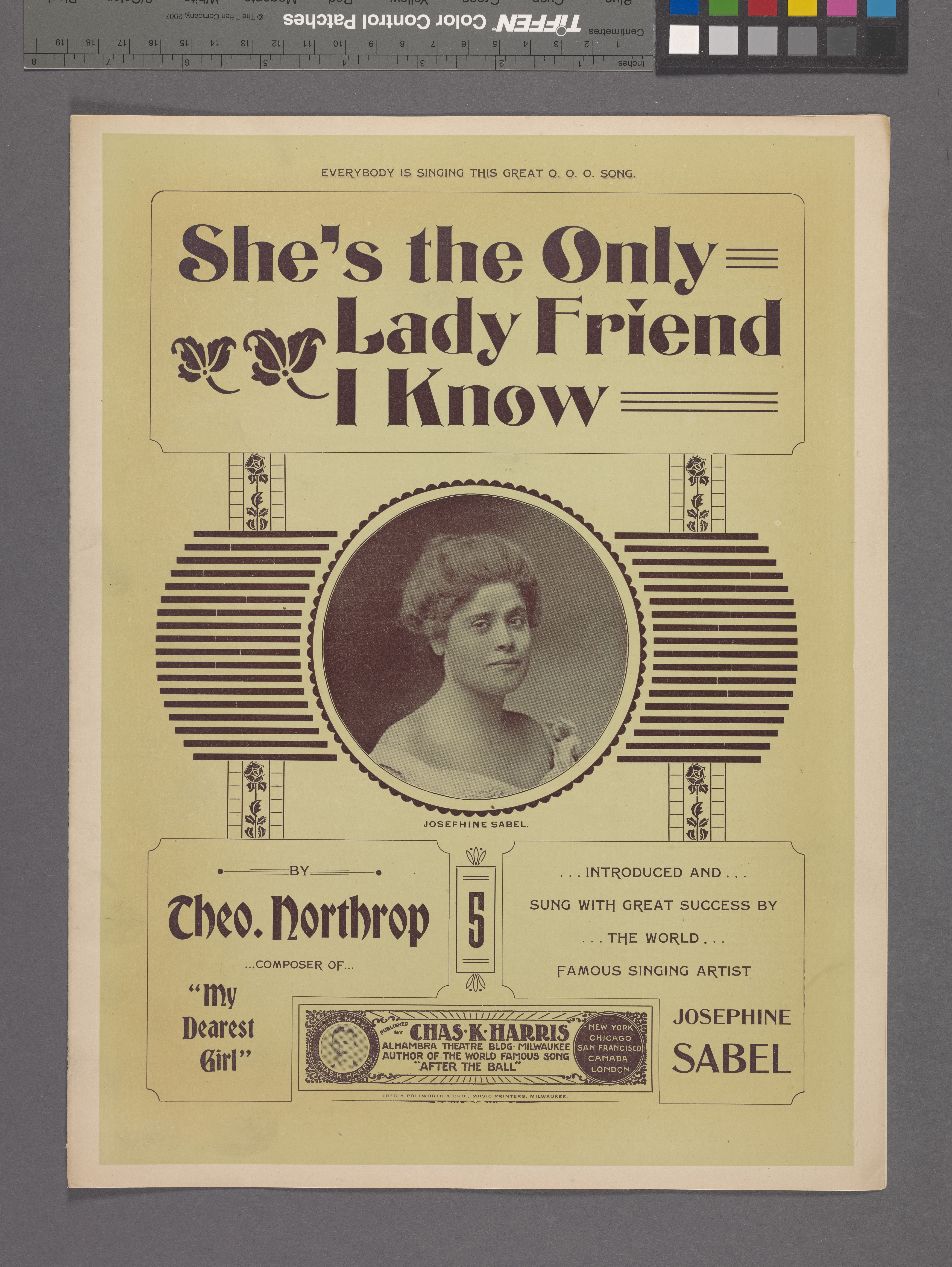 On cover: Everybody is singing this great o. o. o. song. On cover: Introduced and sung with great success by the world famous singing artist Josephine Sabel. Cover includes photograph of Josephine Sabel. Summary: Using ethnically stereotyped language, the narrator describes an African American man meeting Tilda, his girl friend; when they go walking he dresses up and praises her; they love each other so much they got married and lived happily. Statement of responsibility : words and music by Theo. H. Northrup.